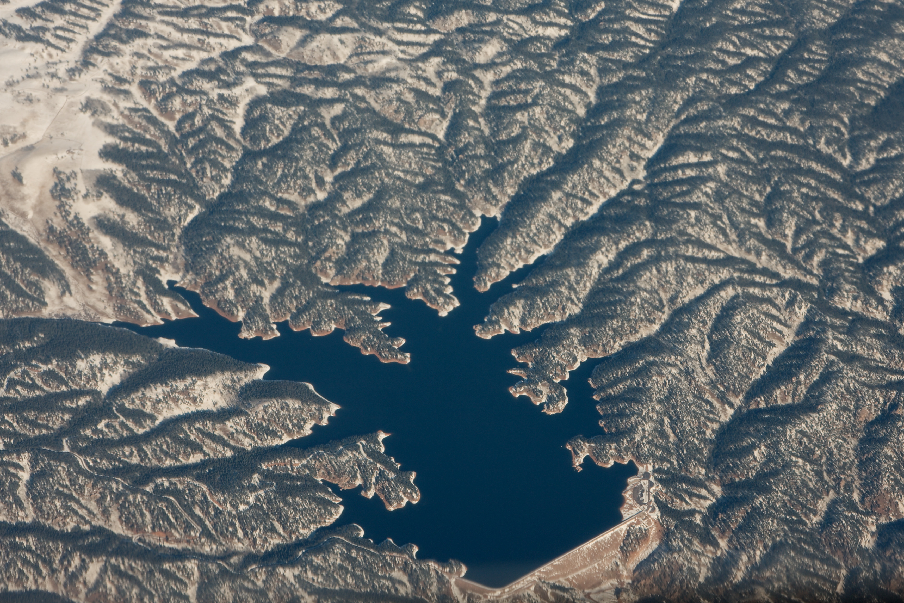 Rampart Reservoir near Colorado Springs, Colorado, taken from an airplane